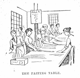 "Then the forewoman ordered one of the girls to "get the lady a stool," and sat down before a long table, on which was piled a lot of pasteboard squares, labeled in the center. Norah spread some long slips of paper on the table; then taking up a scrub-brush, she dipped it into a bucket of paste and then rubbed it over the paper. Next she took one of the squares of pasteboard and, running her thumb deftly along, turned up the edges. This done, she took one of the slips of paper and put it quickly and neatly over the corner, binding them together and holding them in place. She quickly cut the paper off at the edge with her thumb-nail and swung the thing around and did the next corner. This I soon found made a box lid. It looked and was very easy, and in a few moments I was able to make one."